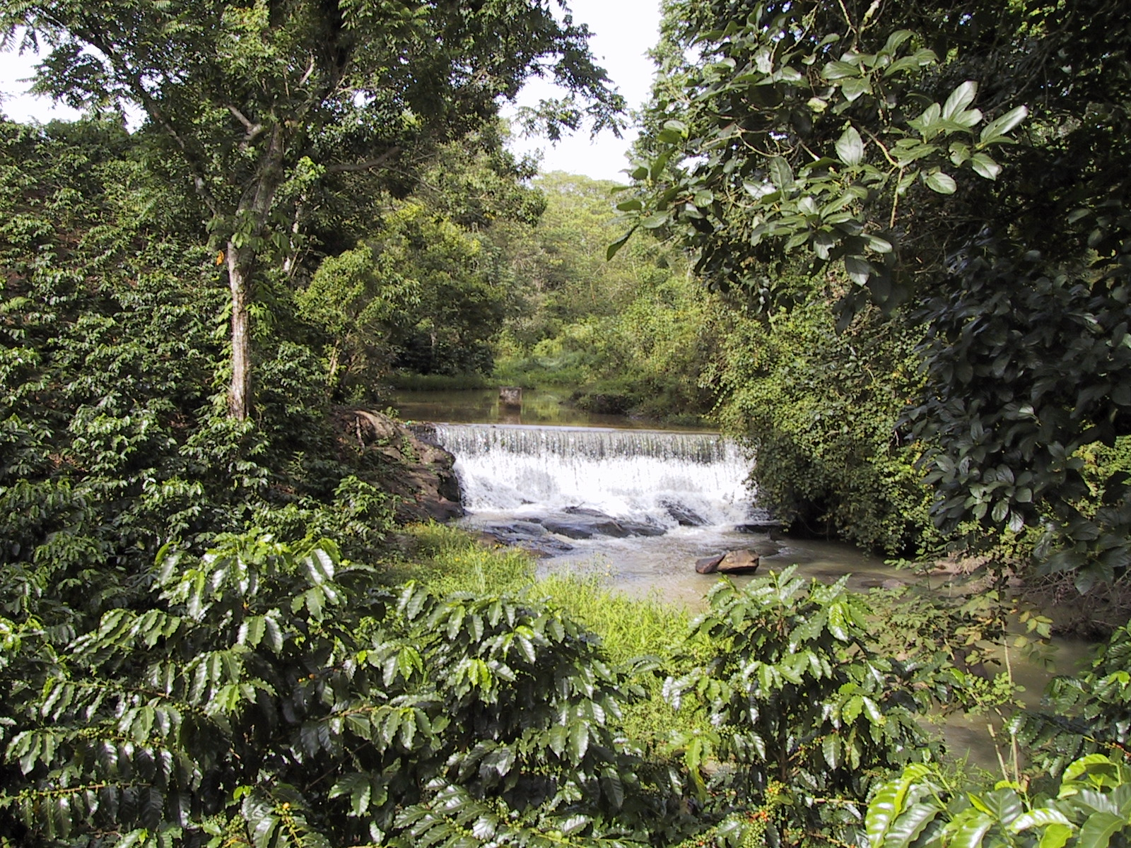 Coffe plantation in Zihuateutla, Puebla, México